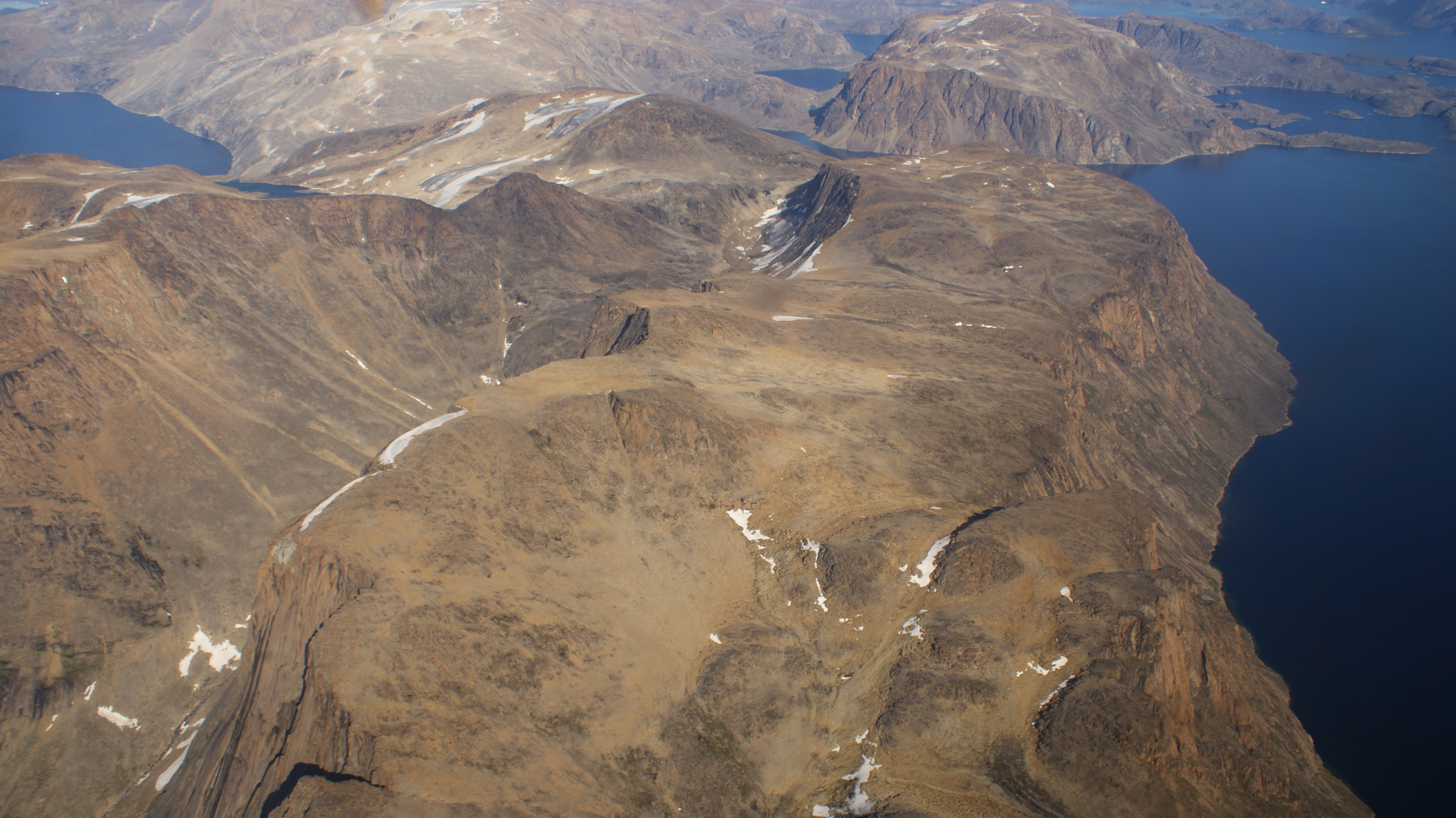 Aerial view of Nutaarmiut Island, Upernavik Archipelago, Greenland. Photographed from the Air Greenland de Havilland Canada Dash-7 during the Ilulissat-Upernavik flight.